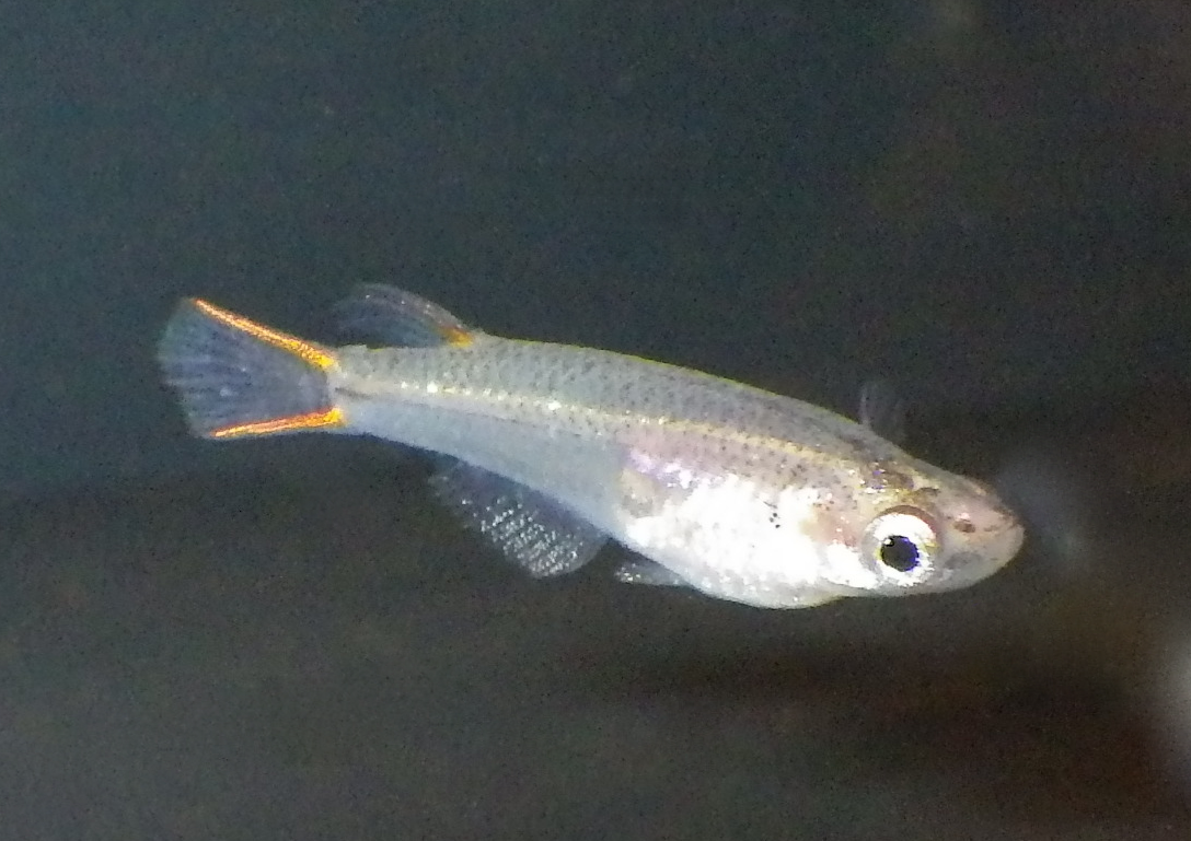 wild-caught Oryzias mekongensis male